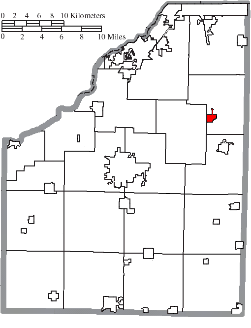 Map of the municipal and township boundaries of Wood County, Ohio, United States, as of the 2000 census, with the location of the village of Luckey highlighted. Township borders are shown only in unincorporated areas in order to differentiate incorporated and unincorporated areas more clearly.